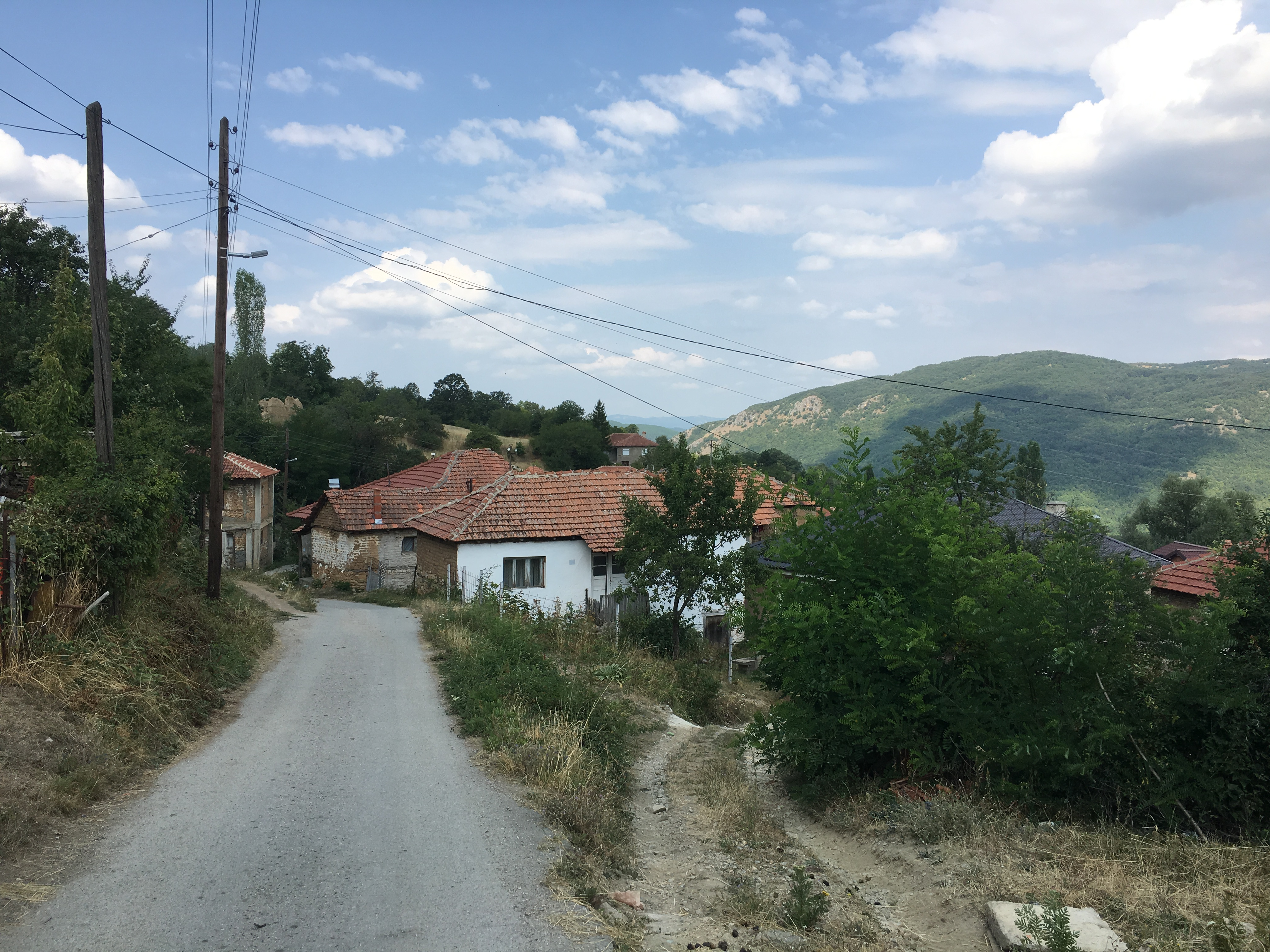 A street in the village of Sviništa